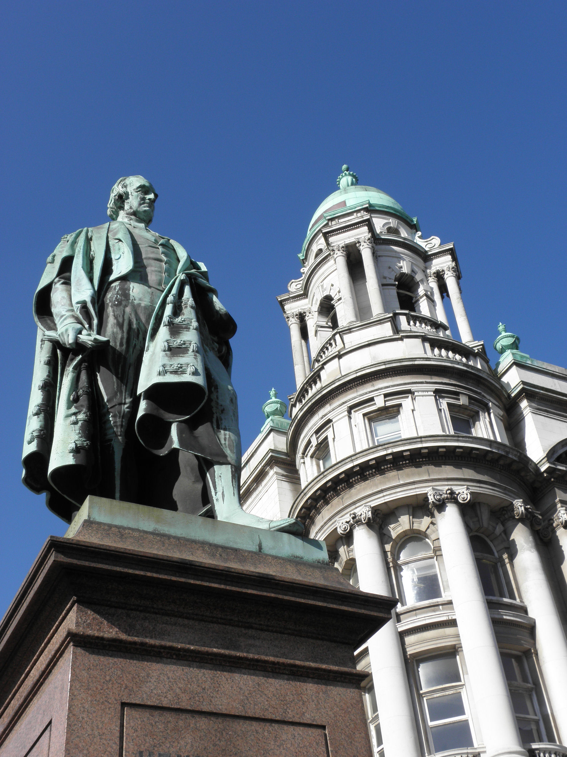 Rev Henry Cooke, Belfast. We can look at him in Omagh too! - see 931823